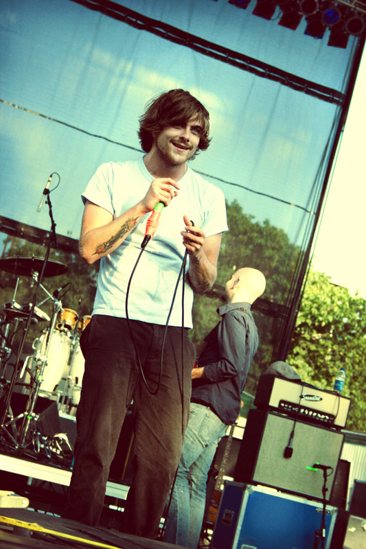 Anthony Green performing with Circa Survive at the Ohio State Welcome Week Concert in Columbus, Ohio on September 28th, 2008.